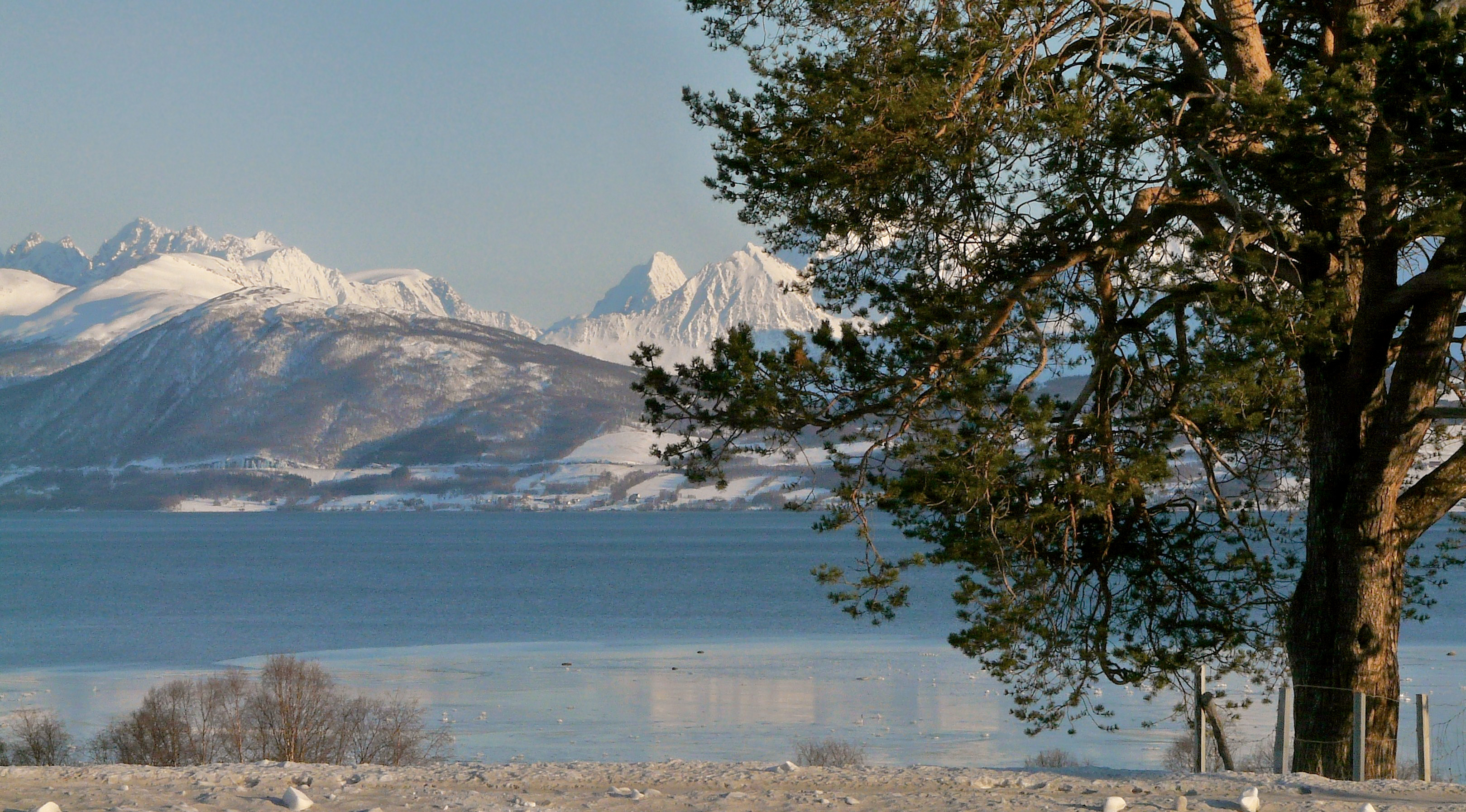 A view to Balsfjorden from Storsteinnes in 2009 February. Lakselvtindane, Nállangáisi and Langdalstindane in the background.